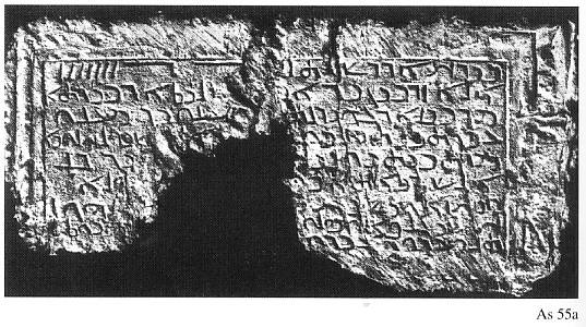 The earliest Syriac inscription known, 6 CE. It comes from Birecik, on the river Euphrates (south-eastern Turkey)